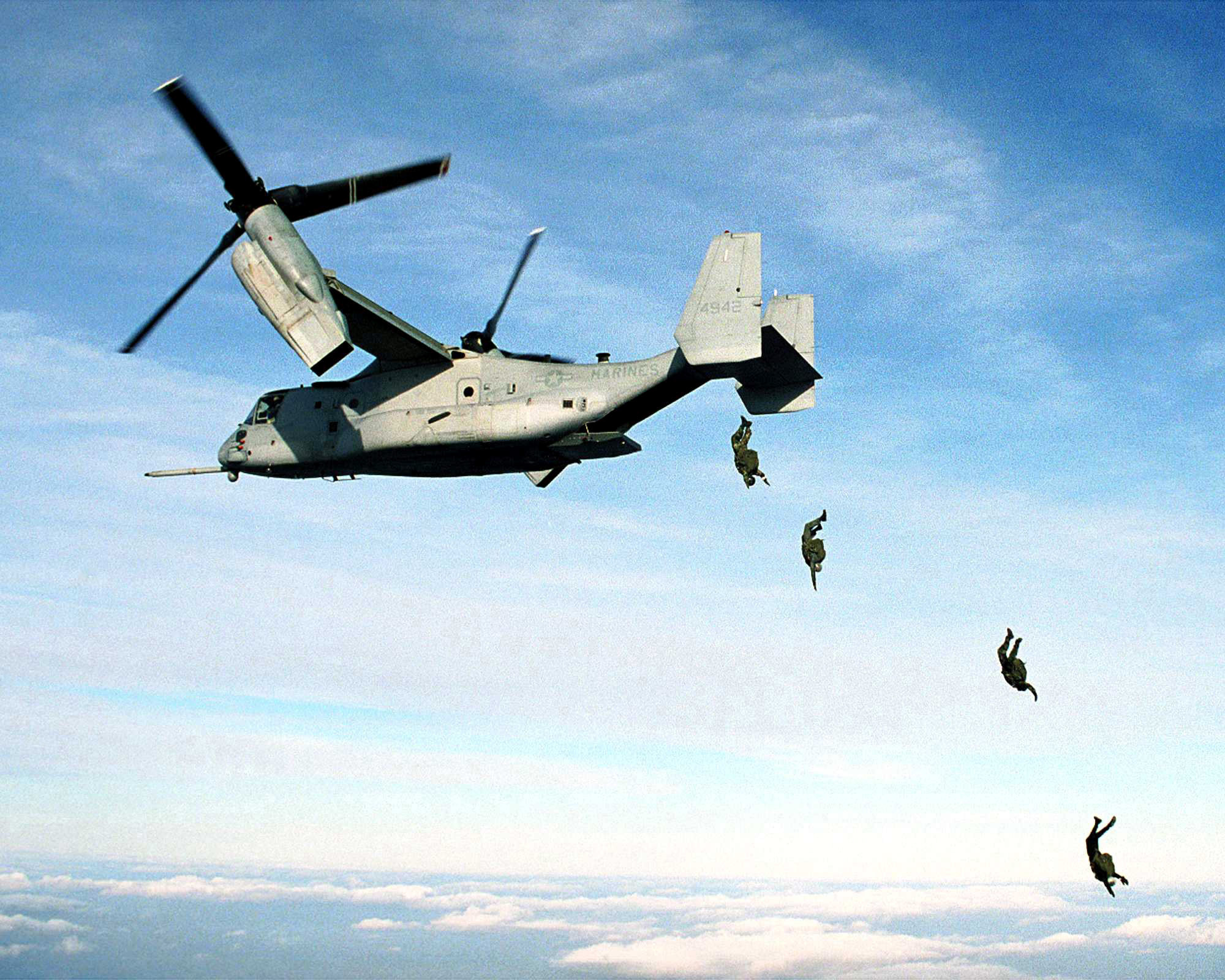 U.S. Marine Corps parachutists free fall from an MV-22 Osprey at 10,000 feet above the drop zone at Fort A.P. Hill, Va. on Jan. 17, 2000. The Marines from the 2nd Reconnaissance Battalion, 2nd Marine Expeditionary Force, Camp Lejeune, N.C., became the first to deploy from the Osprey. Twenty-four successful jumps were recorded under the supervision of the U.S. Army Operational Test Command and the Marine Corps Systems Command to qualify the V-22 for parachute service.